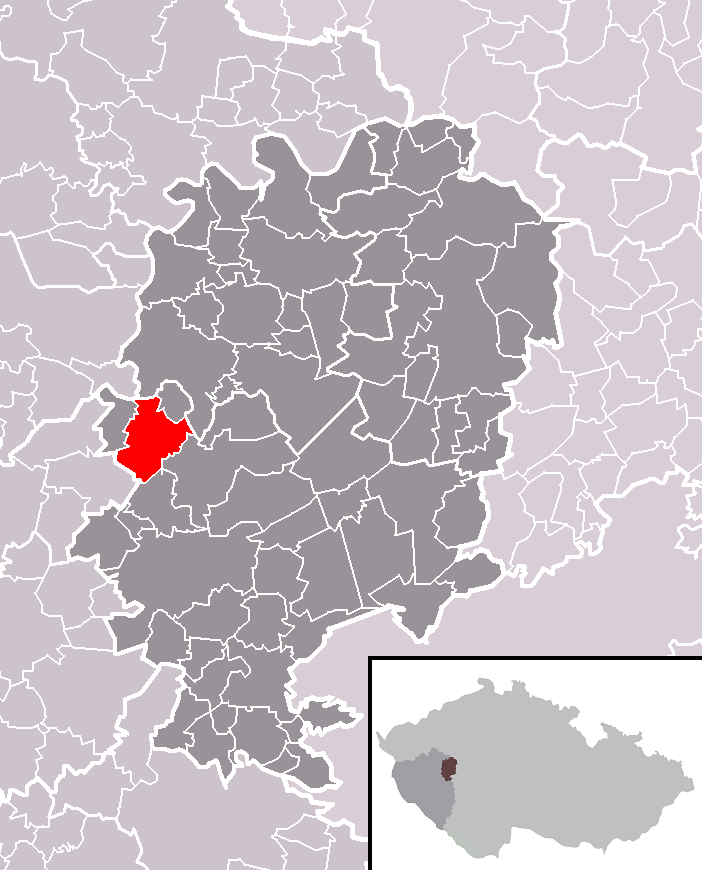 Location of Bušovice municipality within Rokycany District and within identical administrative area of Rokycany as a Municipality with Extended Competence.